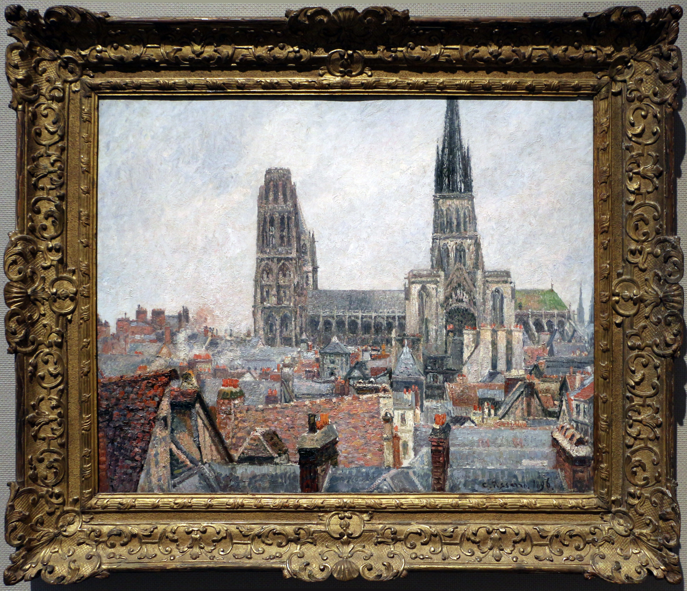 Paintings in the Toledo Museum of Art